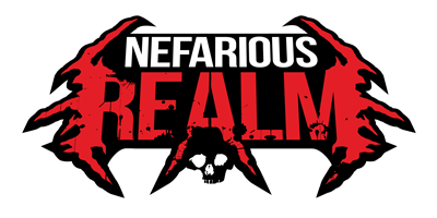 This is the official logo for Nefarious Realm Productions after the 2012 overhaul. Nefarious Realm